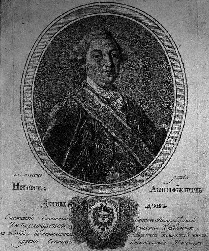 Nikita Akinfiyevich Demidov